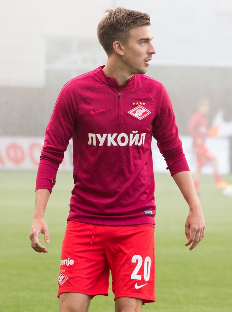 Igor Leontyev with FC Spartak Moscow before the game against FC Dynamo Moscow.